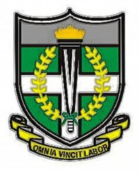 The College Coat of Arms consists of a shield on which is a white cross on a green field. Superimposed on the white cross is a lighted touch flanked by a laurel that is represented by yellow olive branches. The grey colour on the upper part of the shield – combination of white and black signifies the combined efforts of the society of African Missionary (SAM) Fathers (whites) and African faithful in propagating the gospel through the promotion of excellent academic and moral discipline.